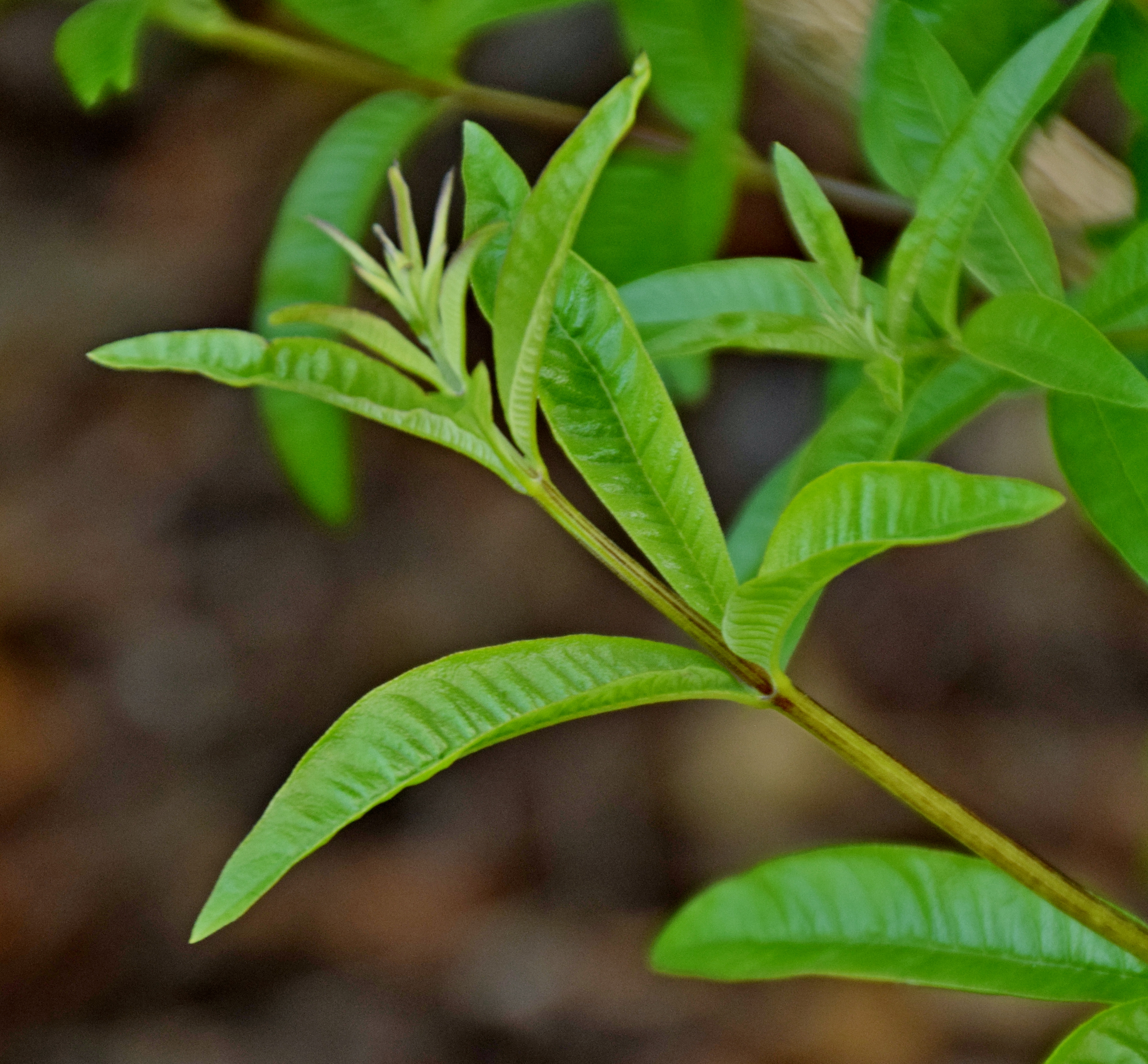 Aloysia citriodora in Dunedin Botanic Garden, Dunedin, New Zealand